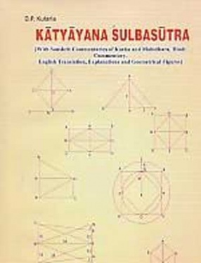 Vedic Maths